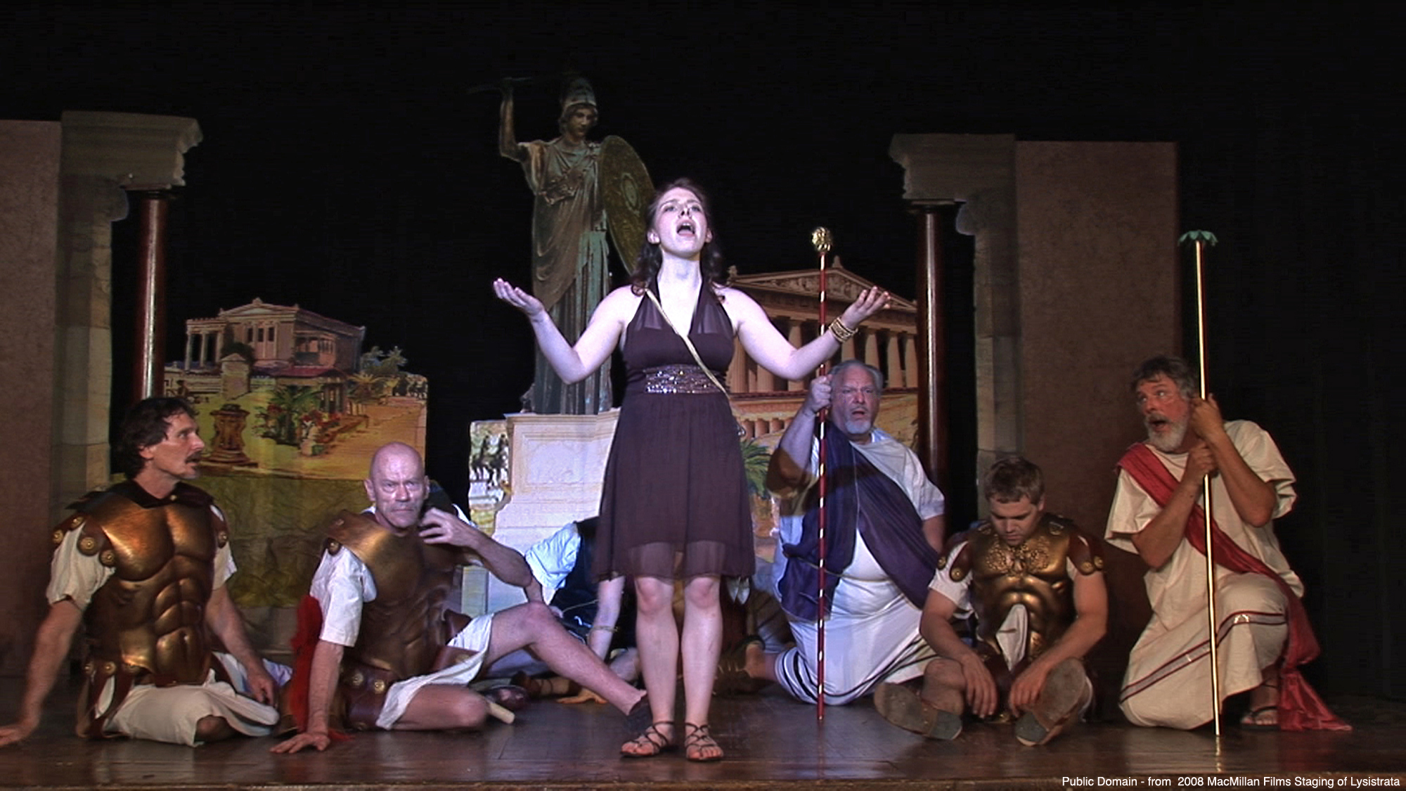 Having brought the Spartans and Athenians to their knees with the naked dancing of Reconciliation, Lysistrata is now free to negotiate peace and end the Peloponnesian War. Location: New York Production.